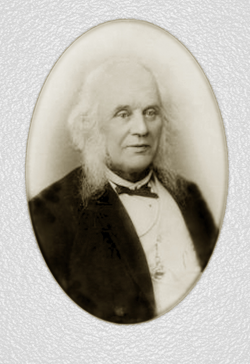 Paul Carl Ludwig Schwarz